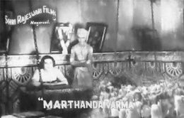 The poster image is a mixture of screen shots taken from original film and are edited with Adobe Photoshop 7.0. Poster image of 1933 silent black & white film from Malayalam film industry.